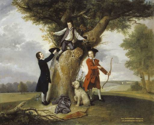 Oil painting of (left-to-right) William Stuart (1755–1822), Charles Stuart (1753–1801) and Frederick Stuart (1751–1802), three sons of John Stuart, 3rd Earl of Bute, Prime Minister of Great Britain (1762–63). Commissioned by Bute with a painting of three of his daughters.